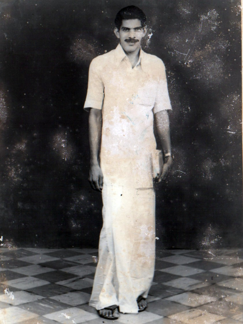 File photo of Thomas Kallampally when he was elected as the youngest member of Kerala Legislature at the age of 27 Other information Young Kallampally as MLA of Kanjirappally